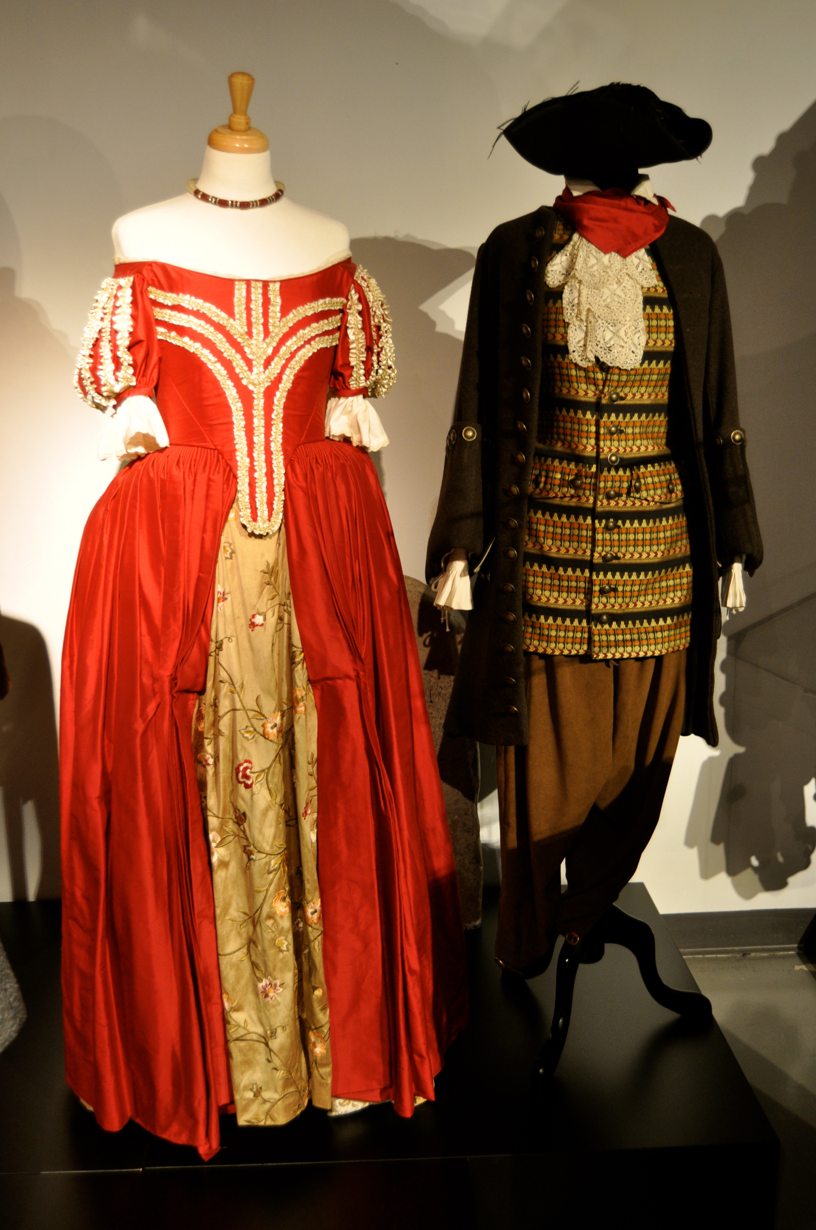 DWE Cardiff Bay, Port Teigr November 2016 Doctor Who Experience